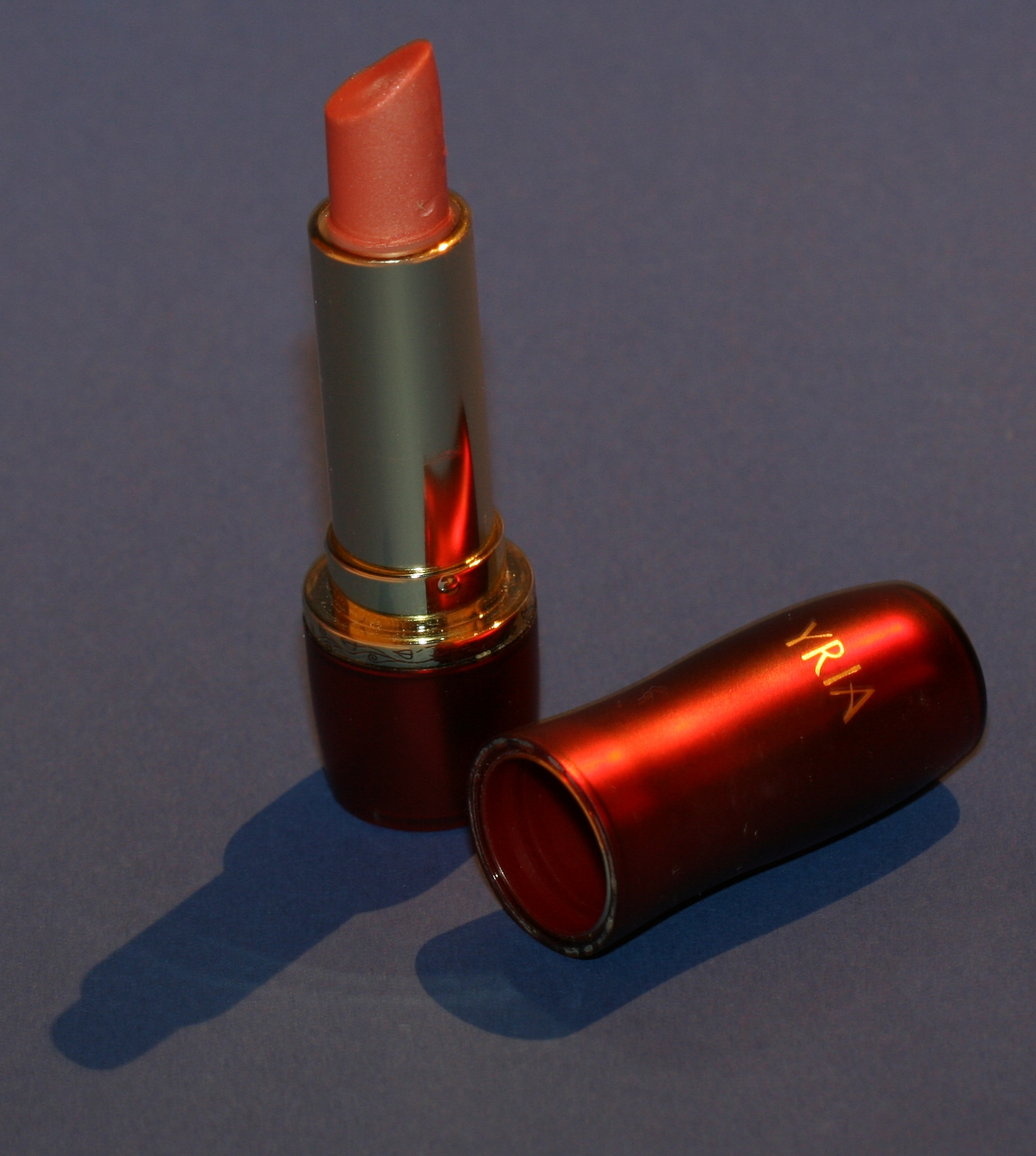 a lipstick